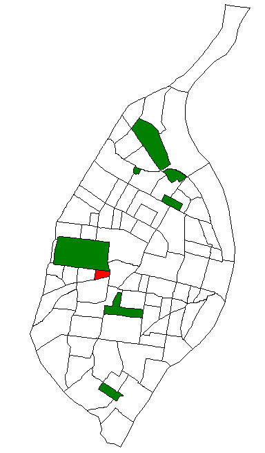 Map of St. Louis Neighborhood #40 (Kings Oak)